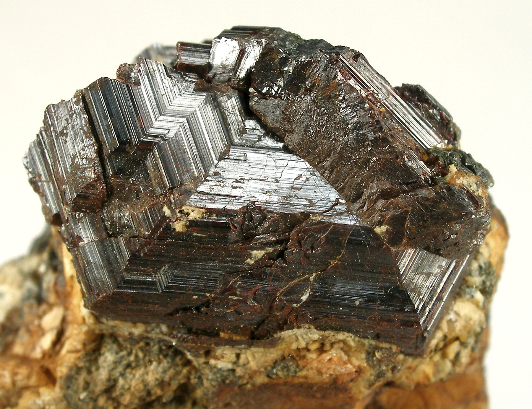 Rutile Locality: Stubach valley, Hohe Tauern Mts, Salzburg, Austria (Locality at ) Size: small cabinet, 6.3 x 4.8 x 2.5 cm Rutile (twinned) A well-sized matrix specimen hosting at its peak a sharply twinned, very geometric, rutile crystal. The scarce locality, and a superb twinning, make this a very fine European rutile specimen. Matrix pieces are unusual, especially in display quality! Comes with two old labels, shown; and is from an old German collection I am slowly dispersing.